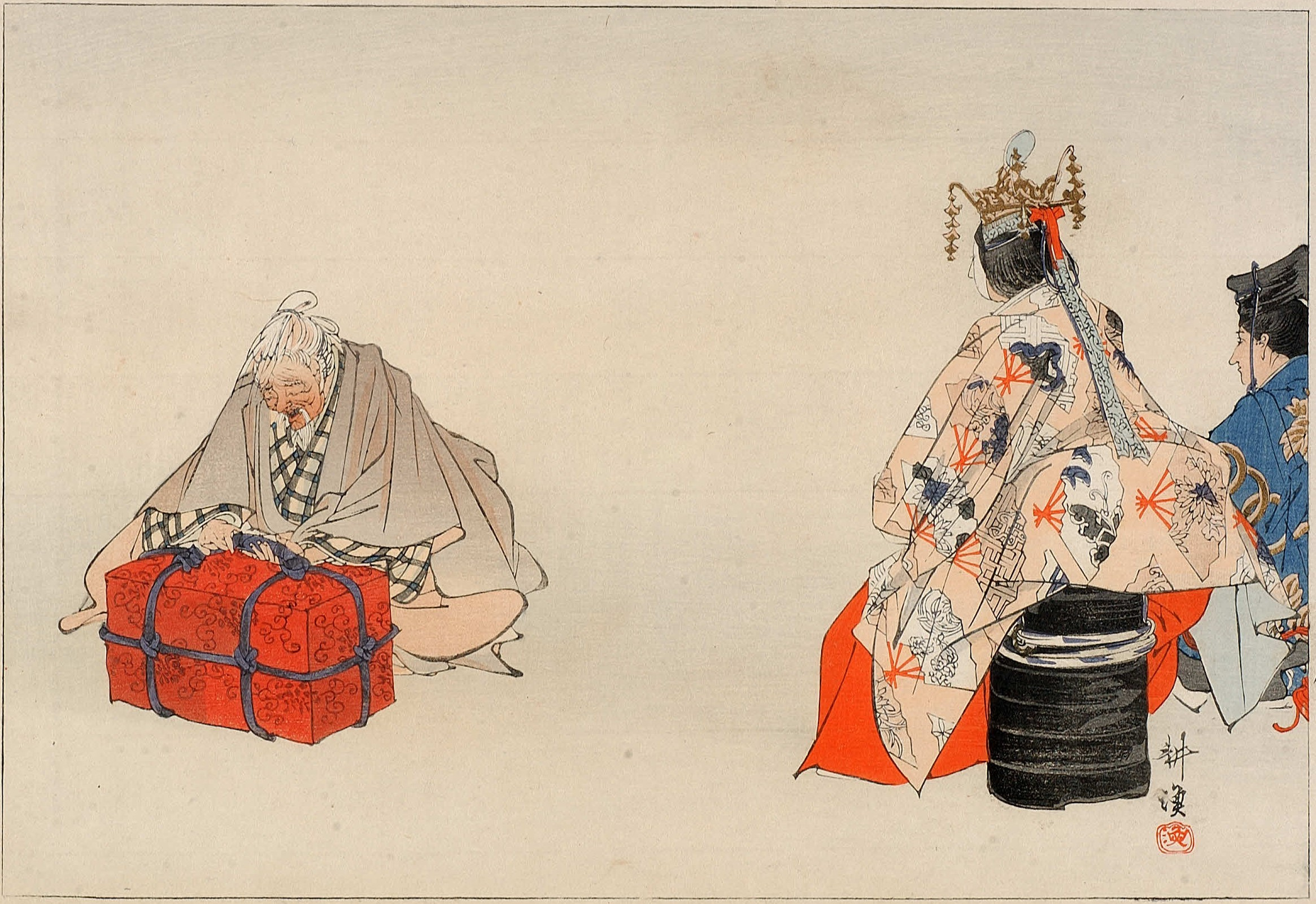 Scene from "Koi no omoni" (Nô play)